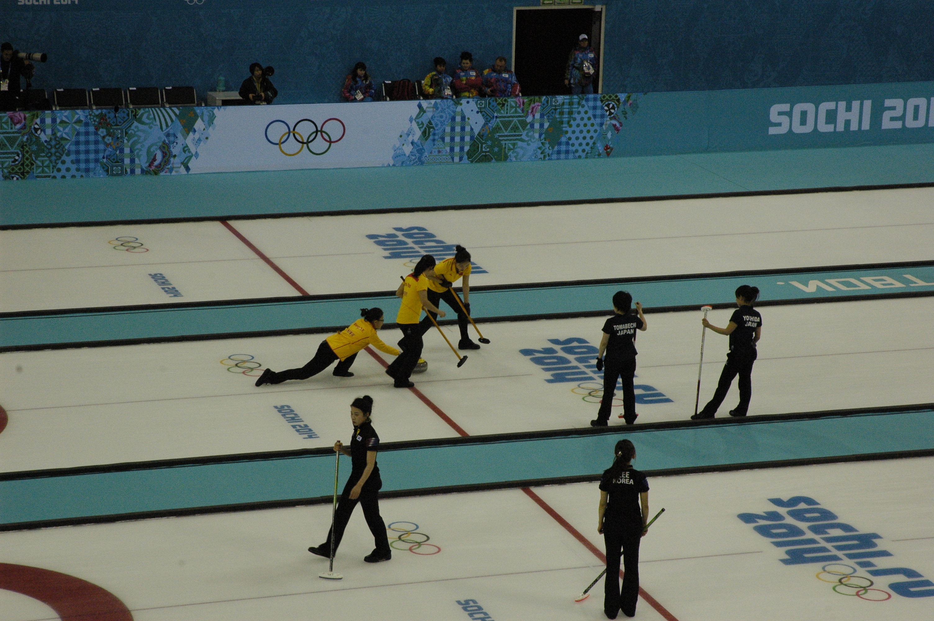 Women's tournament curling, 2014 Winter Olympics, Round robin